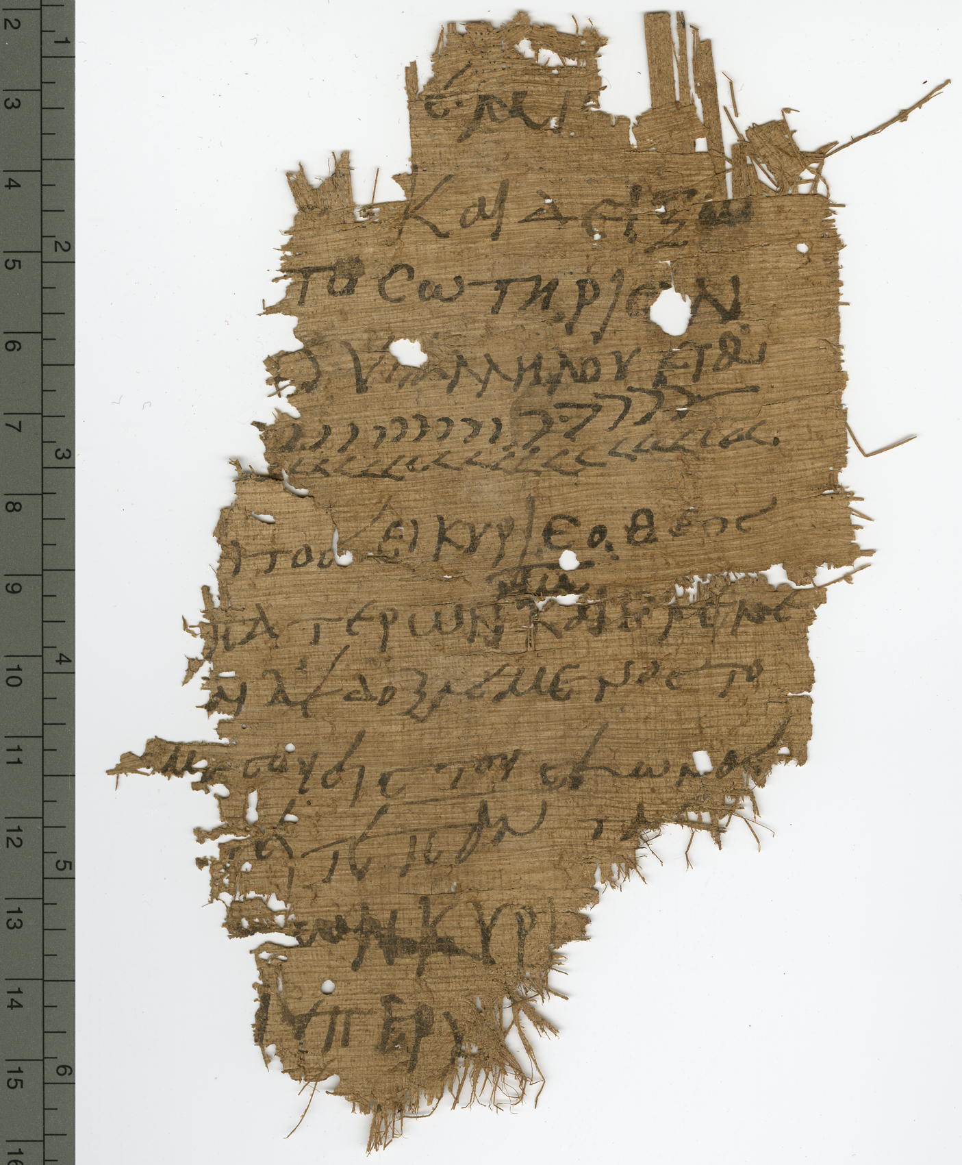 Psalm 90 (LXX); Ode 7,8